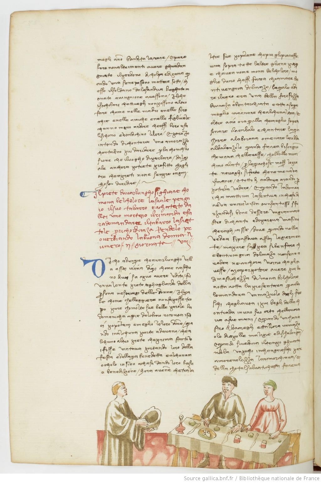 BNF MS Italien 63, fol. 232v: Boccaccio, Decameron: tale 8.2